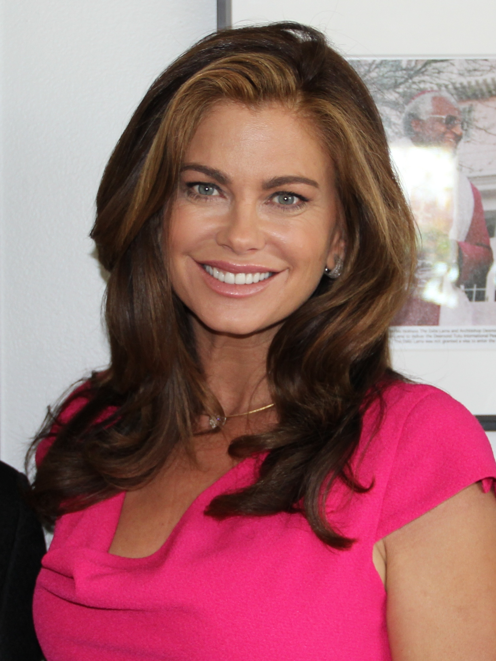 Kathy Ireland at the Googleplex. Cropped from File:Kathy with Gopi & Matt Google+ team leaders.JPG.